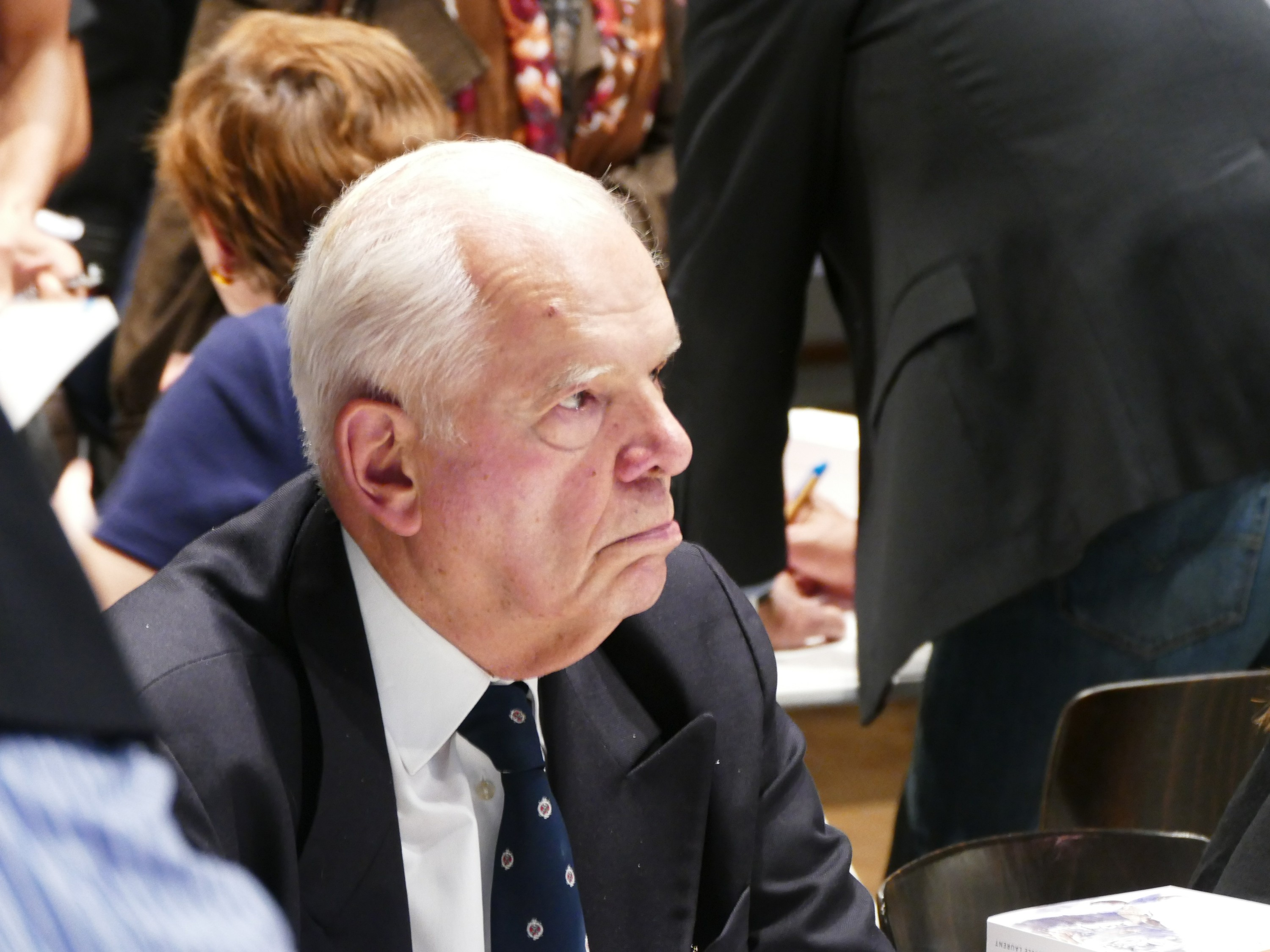 Ghislain de Diesbach at Salon du livre et de la famille in Paris (Île-de-France, France).